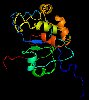 Showing the alpha helices and beta strands, created with i-Tasser.